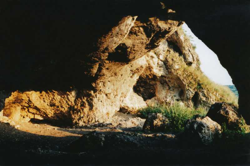 View from inside a cave in the Duruitoarea Veche, Rascani district.